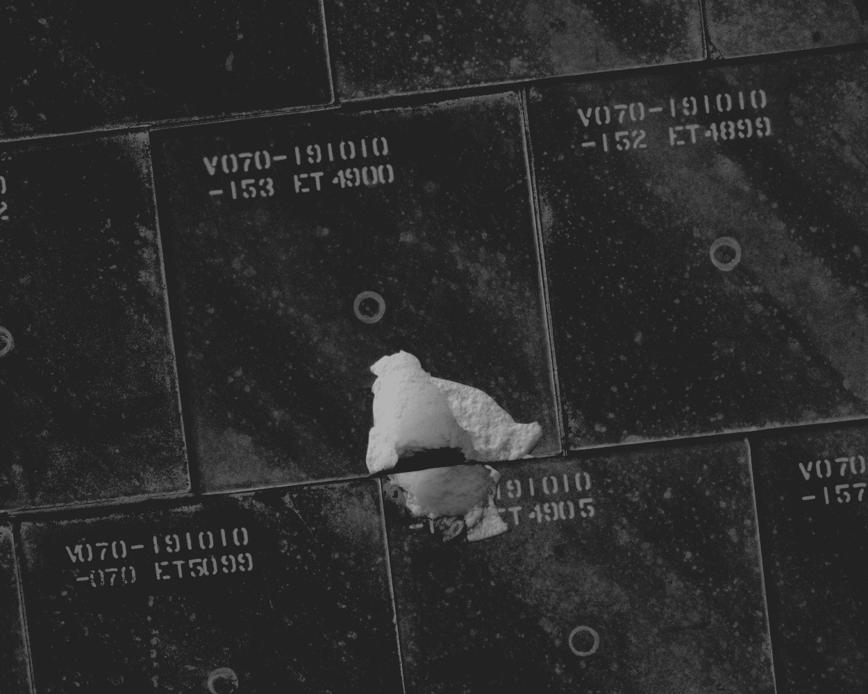 STS-118 Shuttle Mission Imagery S118-E-06229 (12 Aug. 2007) --- Using the shuttle robotic arm and 50-foot-long Orbiter Boom Sensor System (OBSS), the STS-118 crew photographed this close-up view of damaged tile on the underside of the Space Shuttle Endeavour during a focused inspection of the shuttle's heat shield while docked with the International Space Station.